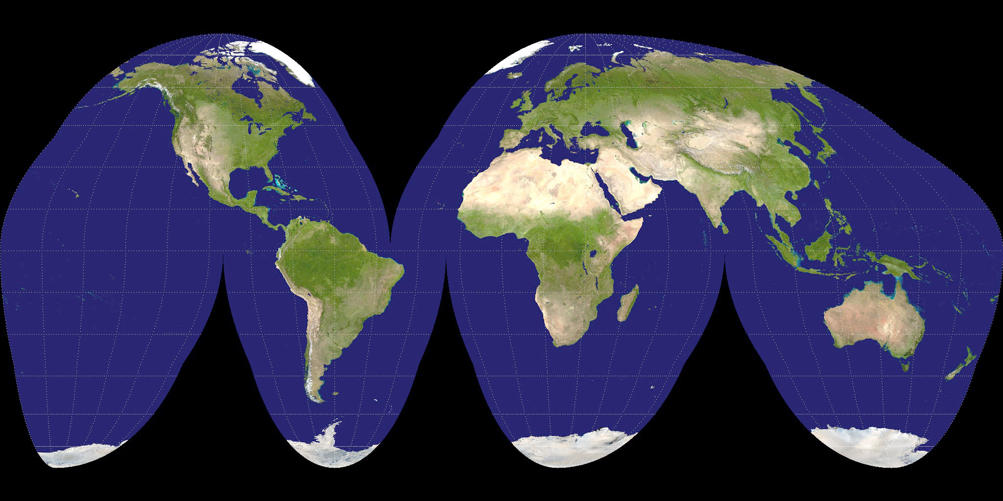 A Goode projection of a Visible Earth image collected by the Earth Observatory experiment of the U.S. Government's NASA space agency. The reticle is 15 degrees in latitude and longitude.